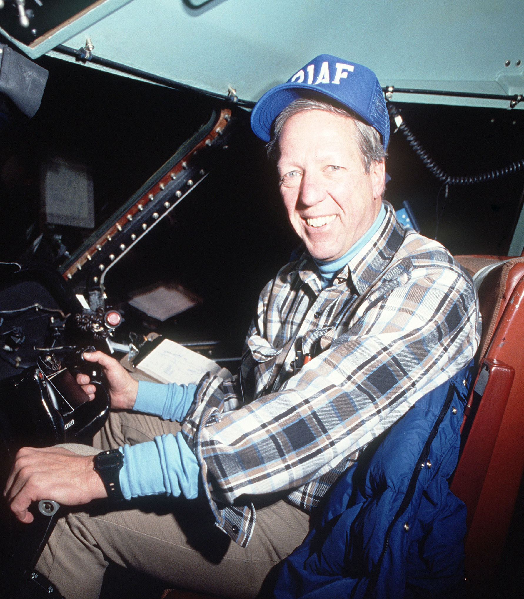 Television celebrity David Hartman sits in the copilot's station of a C-141B Starlifter aircraft that will fly him and his crew to Thule Air Base. Hartman is en route to Thule to film a segment for his television program "Good Morning America."